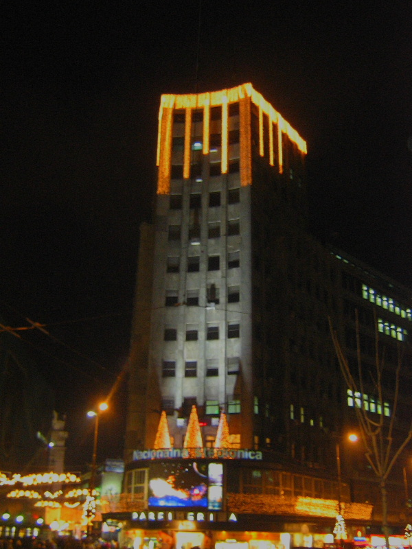 Palace Albanija at night.